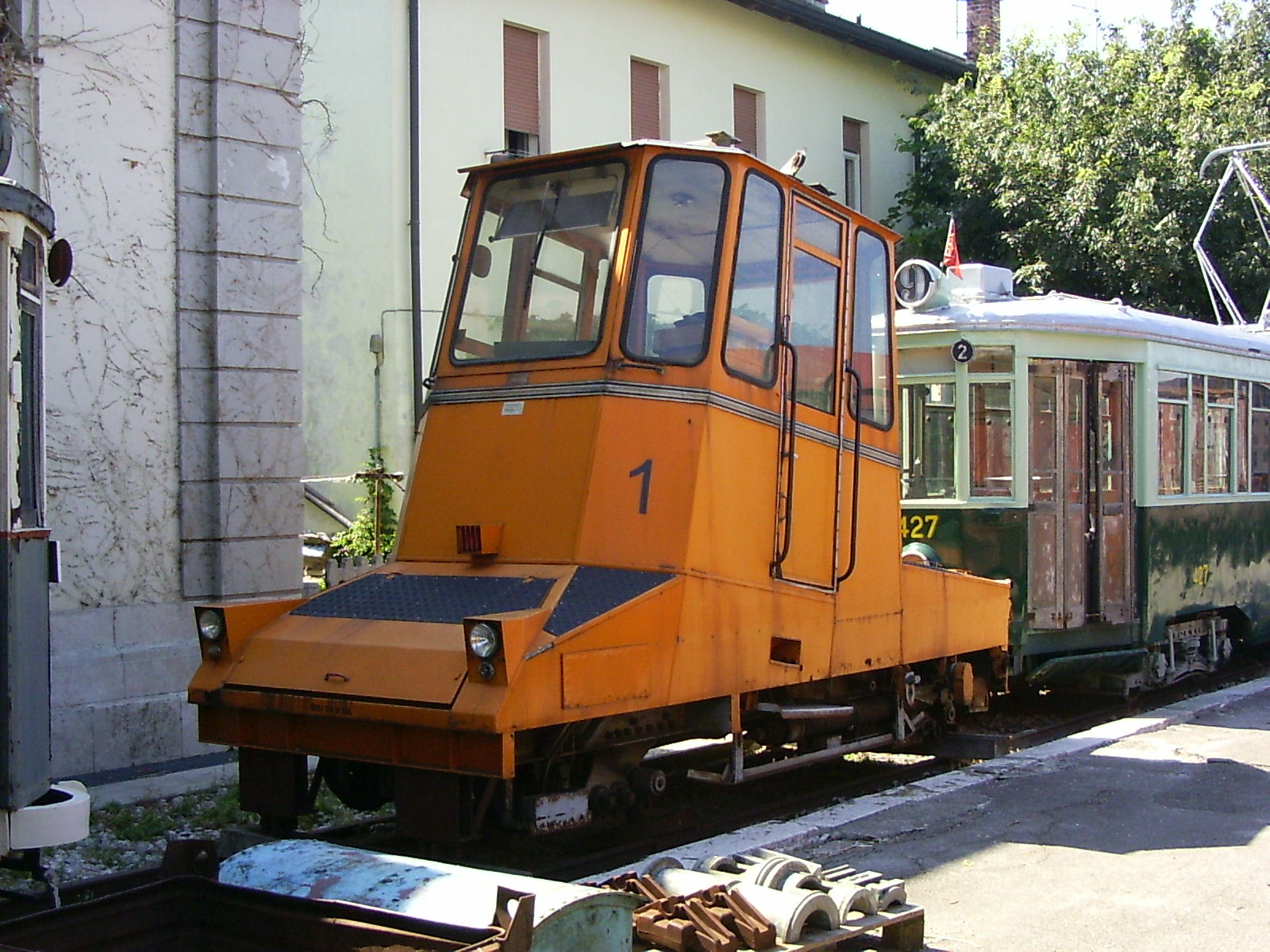 Trieste Railway Museum Campo Marzio on July 10, 2010.